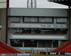 Author: Jack Higgins Created 2005, Photo taken with digital camera inside Oakwell Ground, then cropped using Microsoft Paint. Free to use by anyone